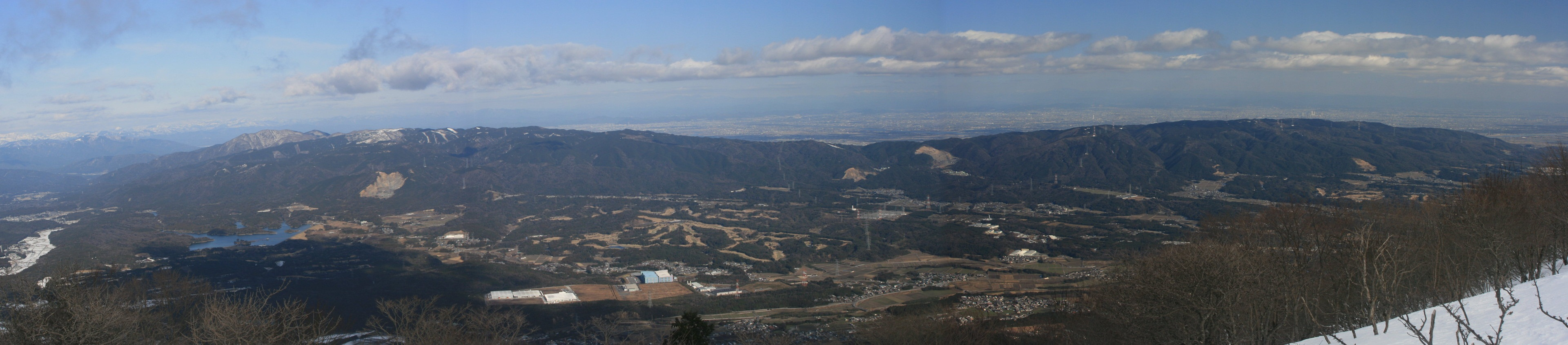 Yōrō Mountains from Mount Fujiwara of Suzuka Mountains